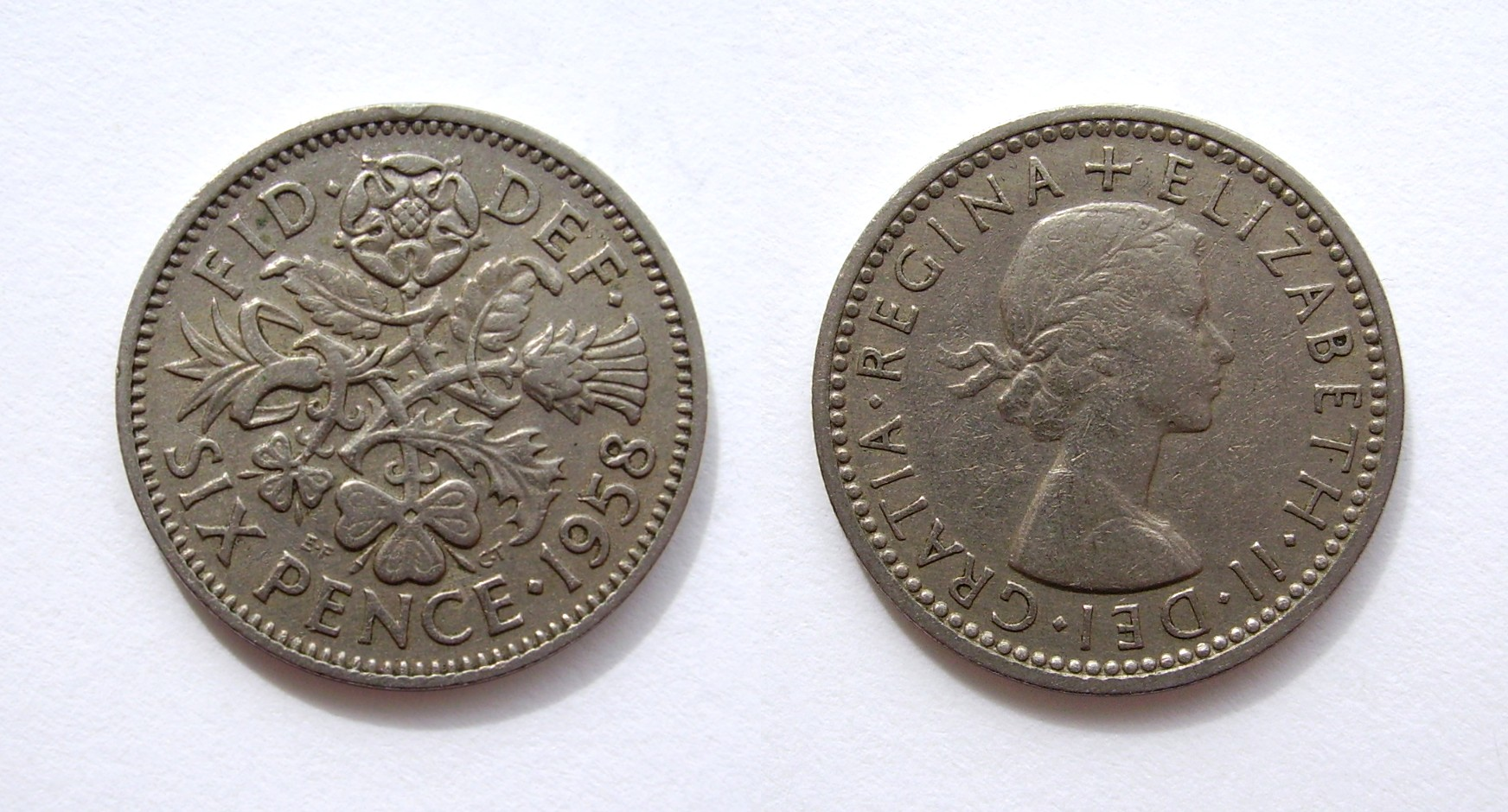 Elizabeth II Sixpence from 1958. Diameter: 3/4 inch. Both sides are of the same coin. The inscription reads "ELIZABETH II DEI GRATIA REGINA", which translates from Latin as "Elizabeth II, by the grace of God, Queen", and then on the other side "FID DEF" meaning "Defender of the Faith".